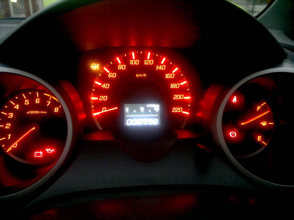 Interior of a South African Honda Jazz